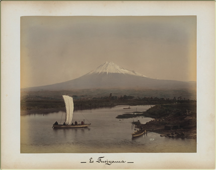 Le Fusiyama [sic] View of Mount Fuji, Japan. Hand-coloured albumen silver print by Kusakabe Kimbei, 1880.